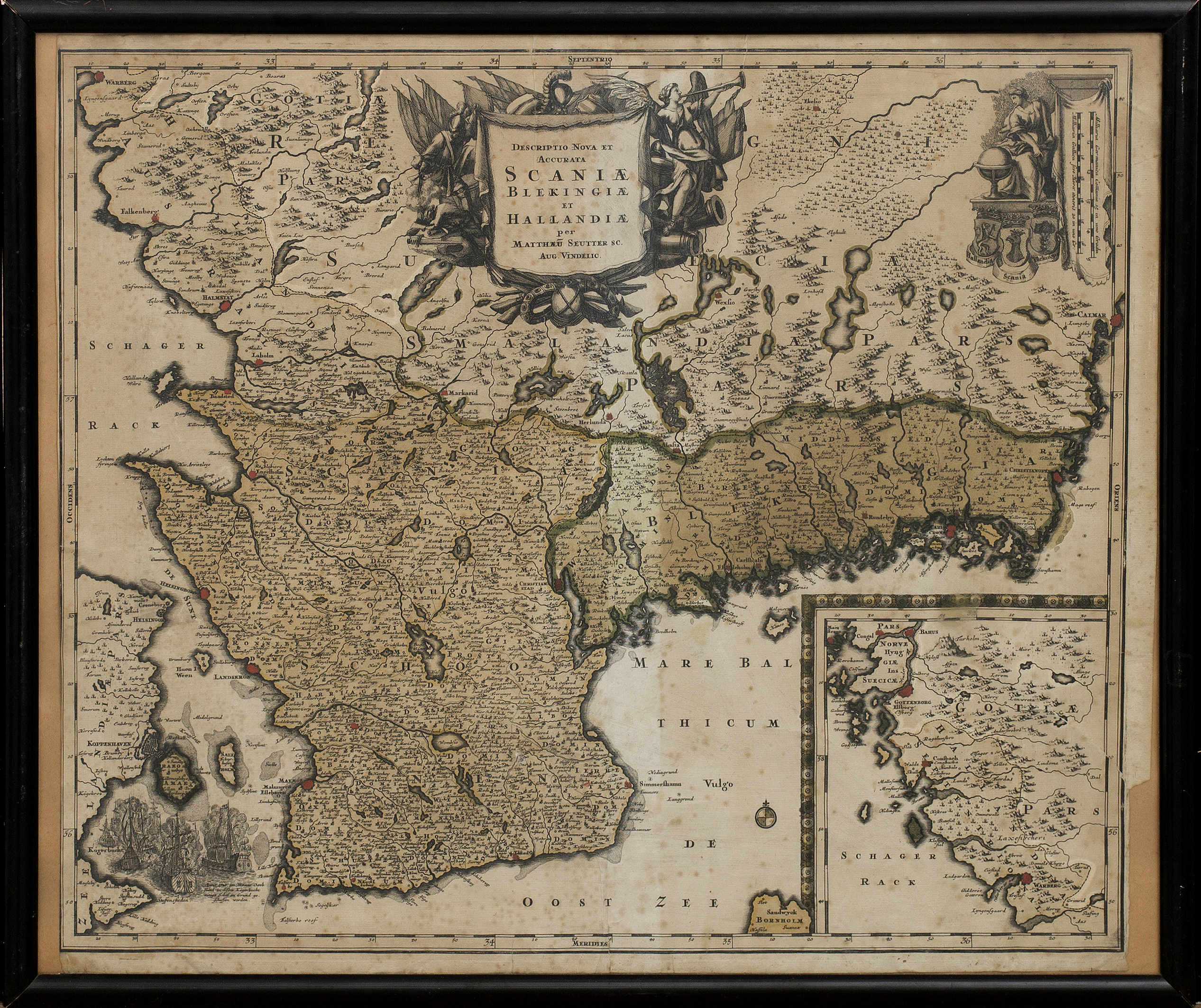 18th century map of the Swedish provinces Scania, Blekinge and Halland.